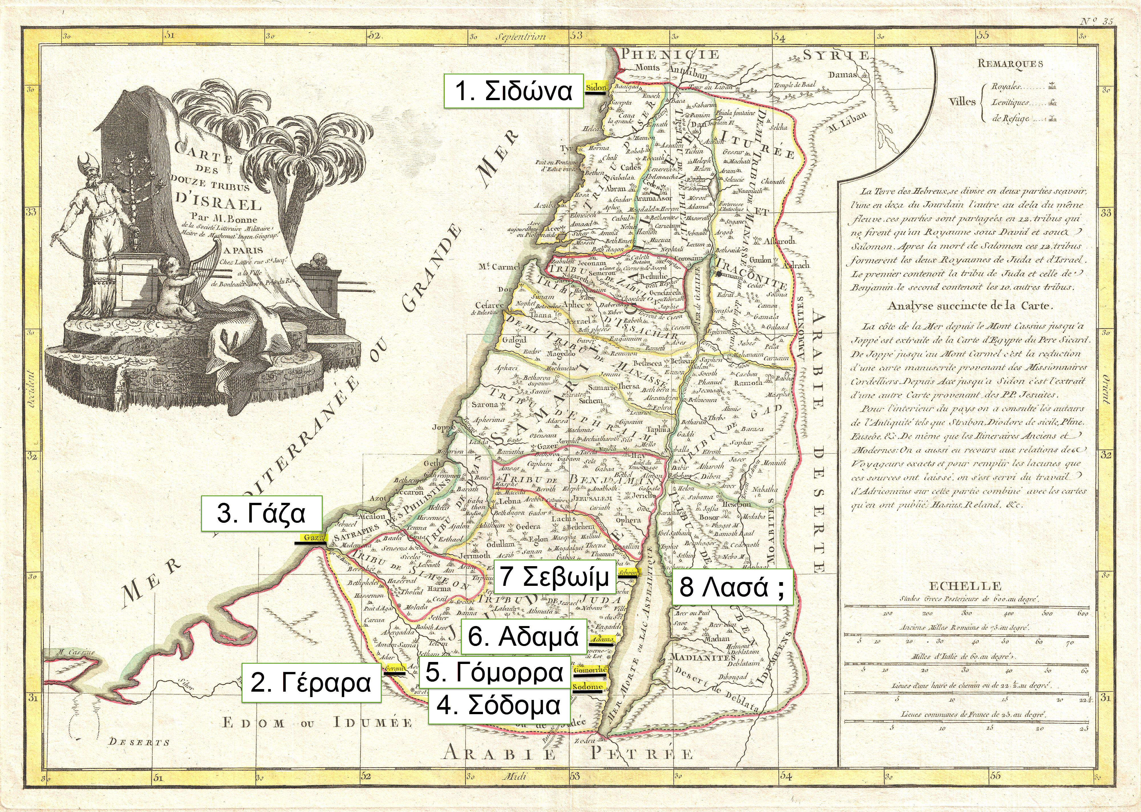 Locations up to which Canaanites had spread, according to Genesis 10.19 based n Rigobert Bonne's c. 1770 map of the Holy Land on both sides of the Jordan River.